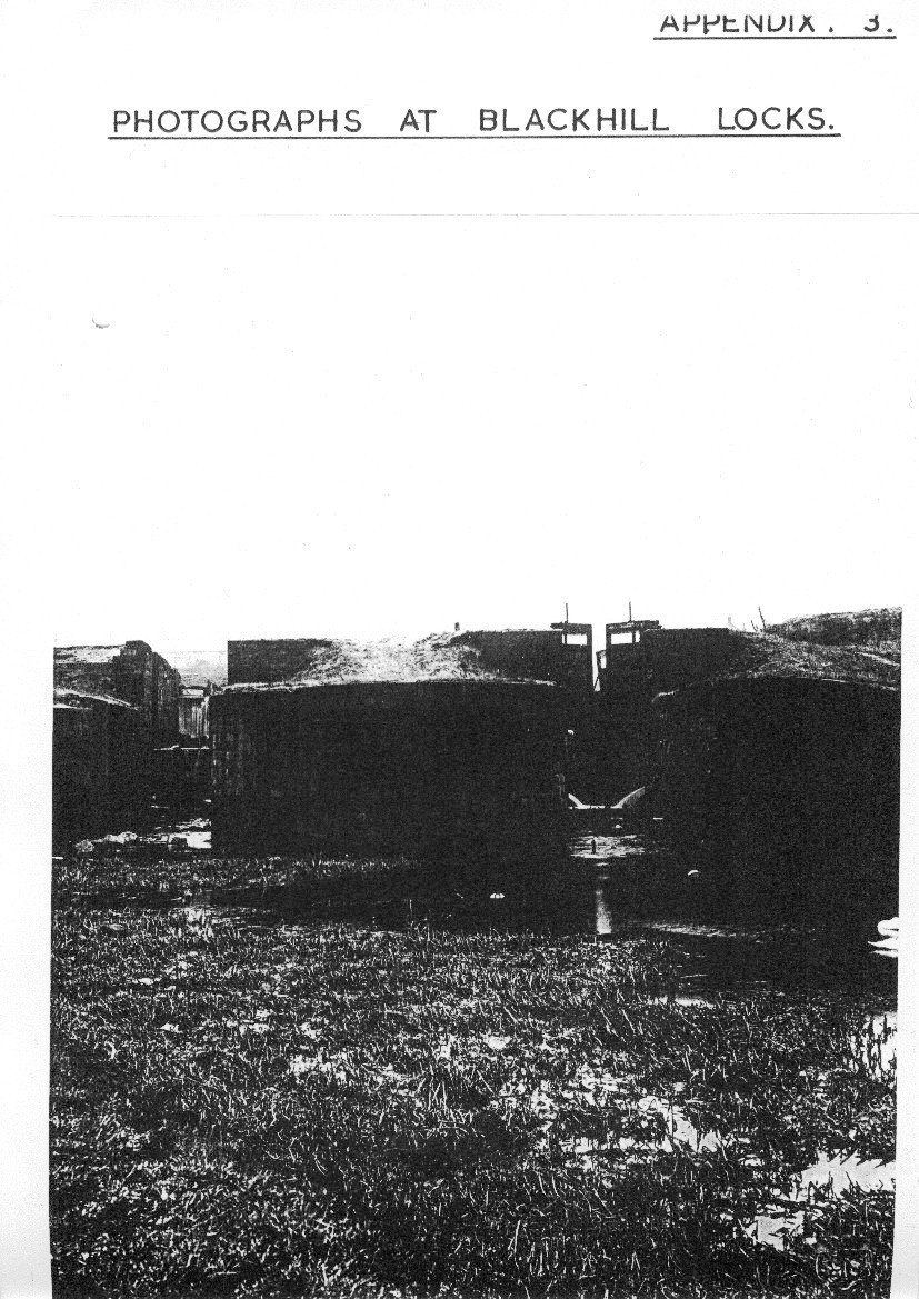 Scan of photograph of Blackhill locks from appendix 3 of Accidents in Glasgow canals with special reference to the Monkland Canal.